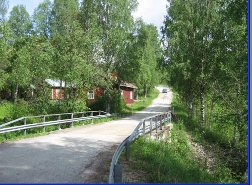 Museum Road (connecting road 5077) of Vorna, Kelvä, Lieksa, Finland